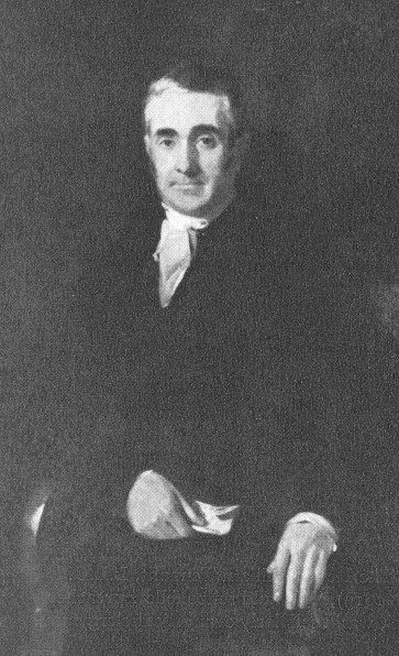 Photograph of a portrait of Charles Tennant (1768-1838) artist unknown